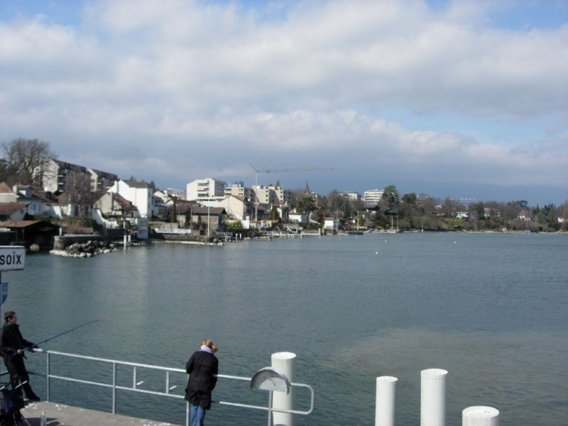 Lake Geneva at Versoix, GE, Switzerland